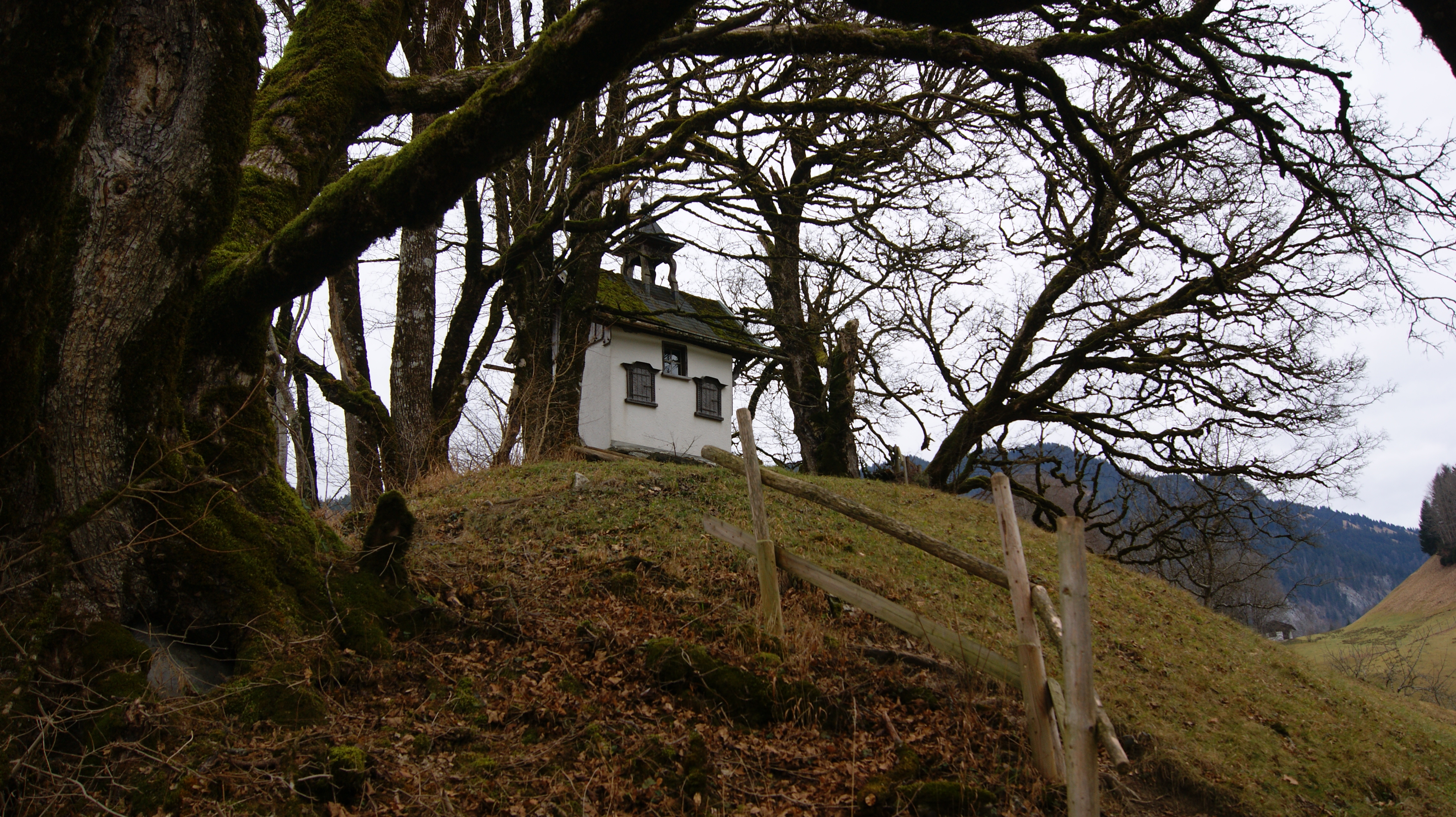 The "Bildbuehl" chapel is located in the district of "Bildbuehl" in Bizau, Vorarlberg, Austria, on an elevation of about 710 masl, and was built in the 17th century on the basis of a vow built.